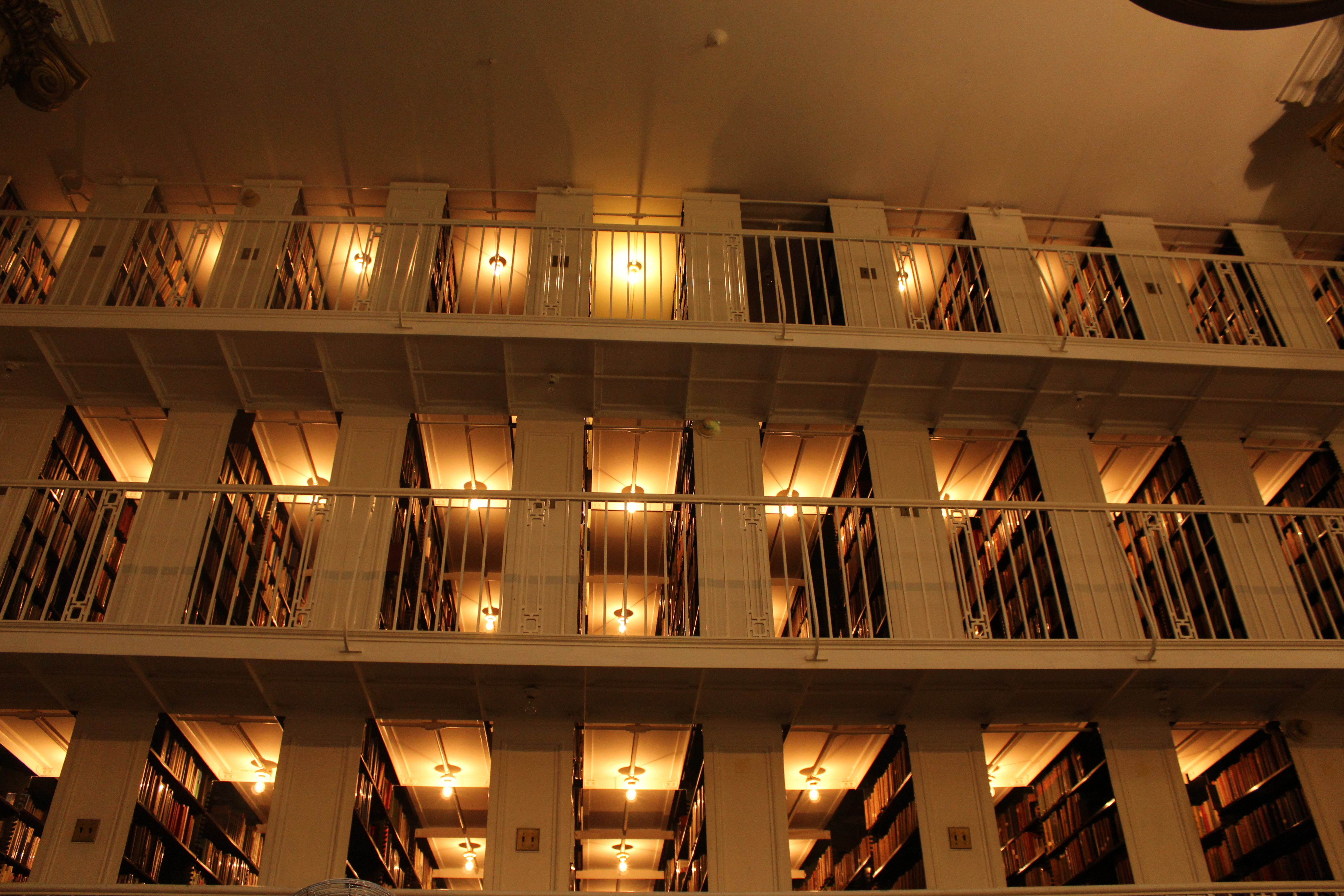 Illuminated wall of books Site: Institute of Classical Architecture & Art